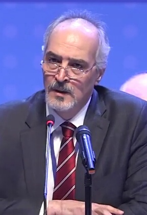 Bashar Jaafari, the Permanent Representative of the Syrian Arab Republic to the United Nations during the talks in Astana, Kazakhstan.